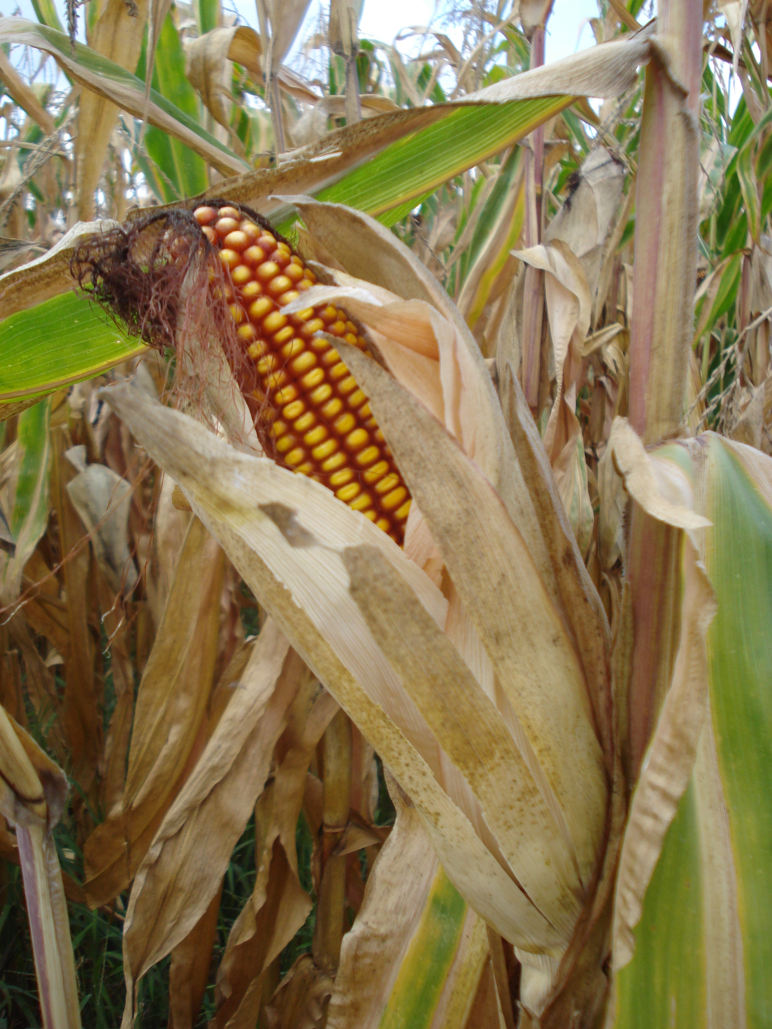 Ear of corn grown up in Medjimurje County, Croatia